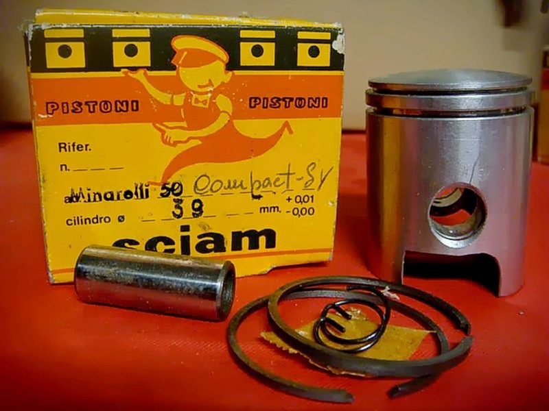 Piston with L-shaped bands